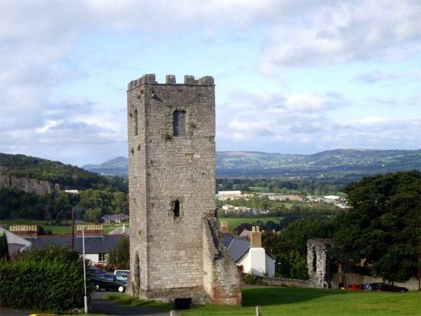 The disused tower of the former St Hilary's Chapel, Denbigh.